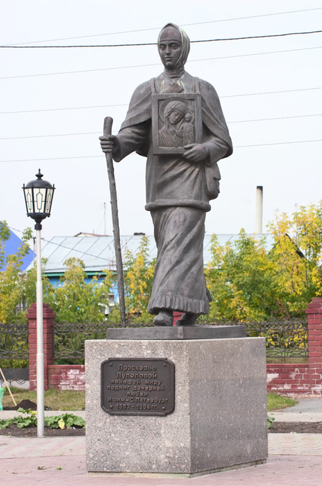 Praskovia Louppolova in bronze at Ishim, her birthplace